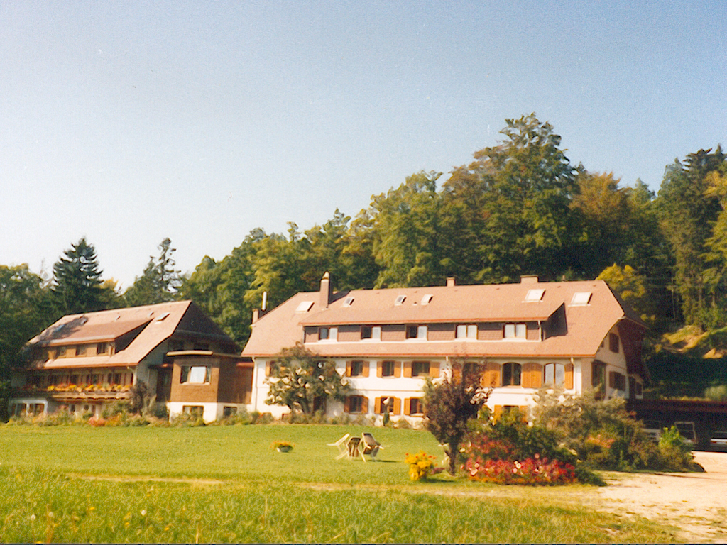 View from the garden at the Studenhof